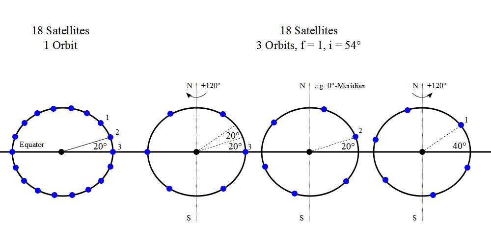 Description of the phase difference f at Walker Delta Pattern Constellation 54°:18/3/1